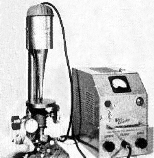 Model U600 ultrasonic drill, made by Vibro-Ceramics Corp., Metuchen, New Jersey in 1955. This could cut holes in glass, tungsten carbide, sapphire, ceramic, and hardened steel by ultrasonic machining, using a steel tool vibrating up and down at ultrasonic frequencies applied to the work with a slurry of abrasive. The power unit (right) produces an alternating current oscillating at ultrasonic frequency (above 20,000 Hz). This is applied to a piezoelectric ceramic transducer in the drill body (top) causing it to vibrate. The transducer is attached to an exponentially tapered steel rod (center) which acts as an acoustic "transformer" to increase the amplitude of the vibrations. The steel cutting tool is screwed to the lower end of the rod. A variety of interchangeable tools for cutting holes of various shapes and sizes come with the unit. The unit consumes 35 watts and weighs 15 lbs.